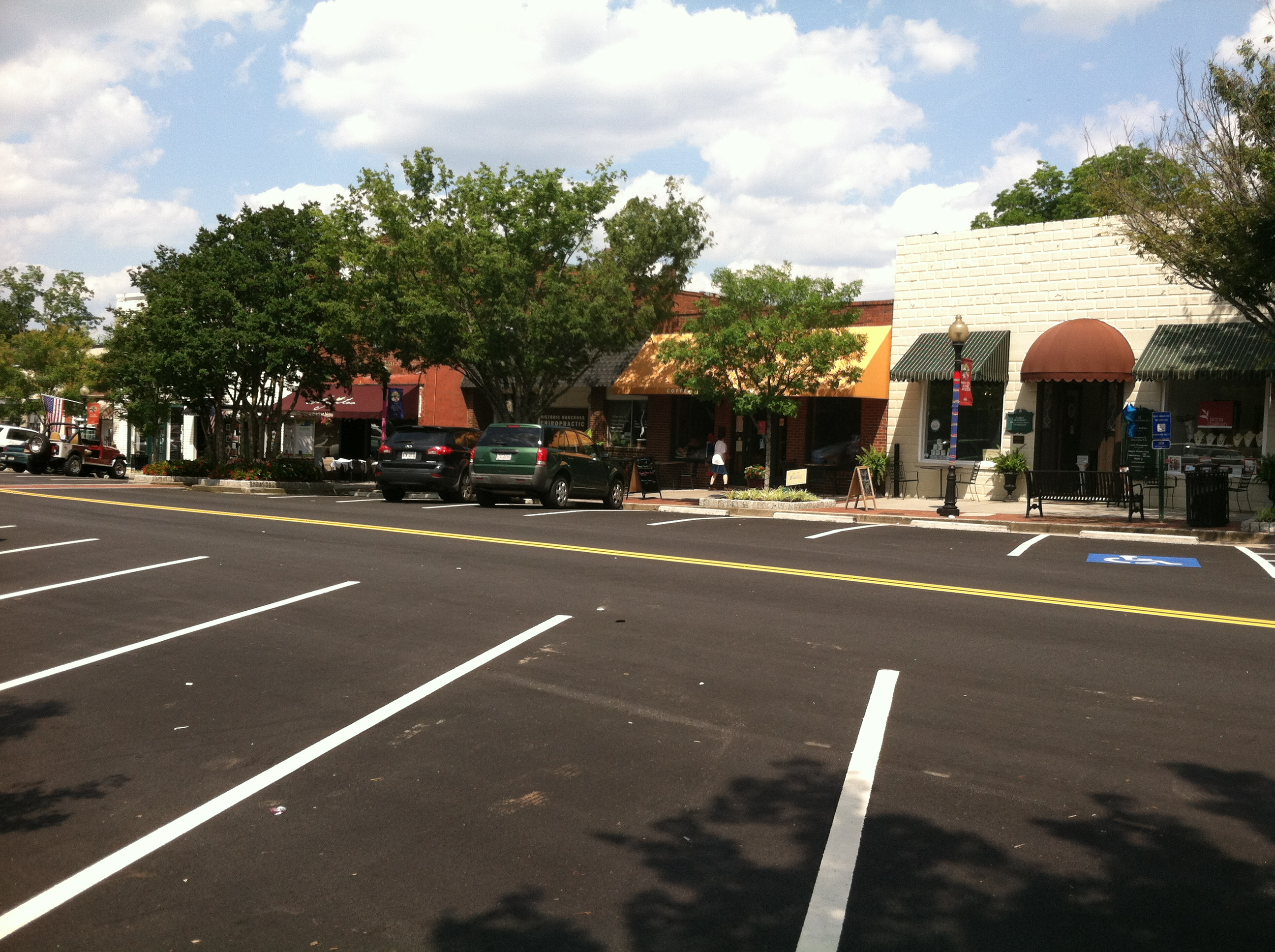 Downtown Norcross, Georgia